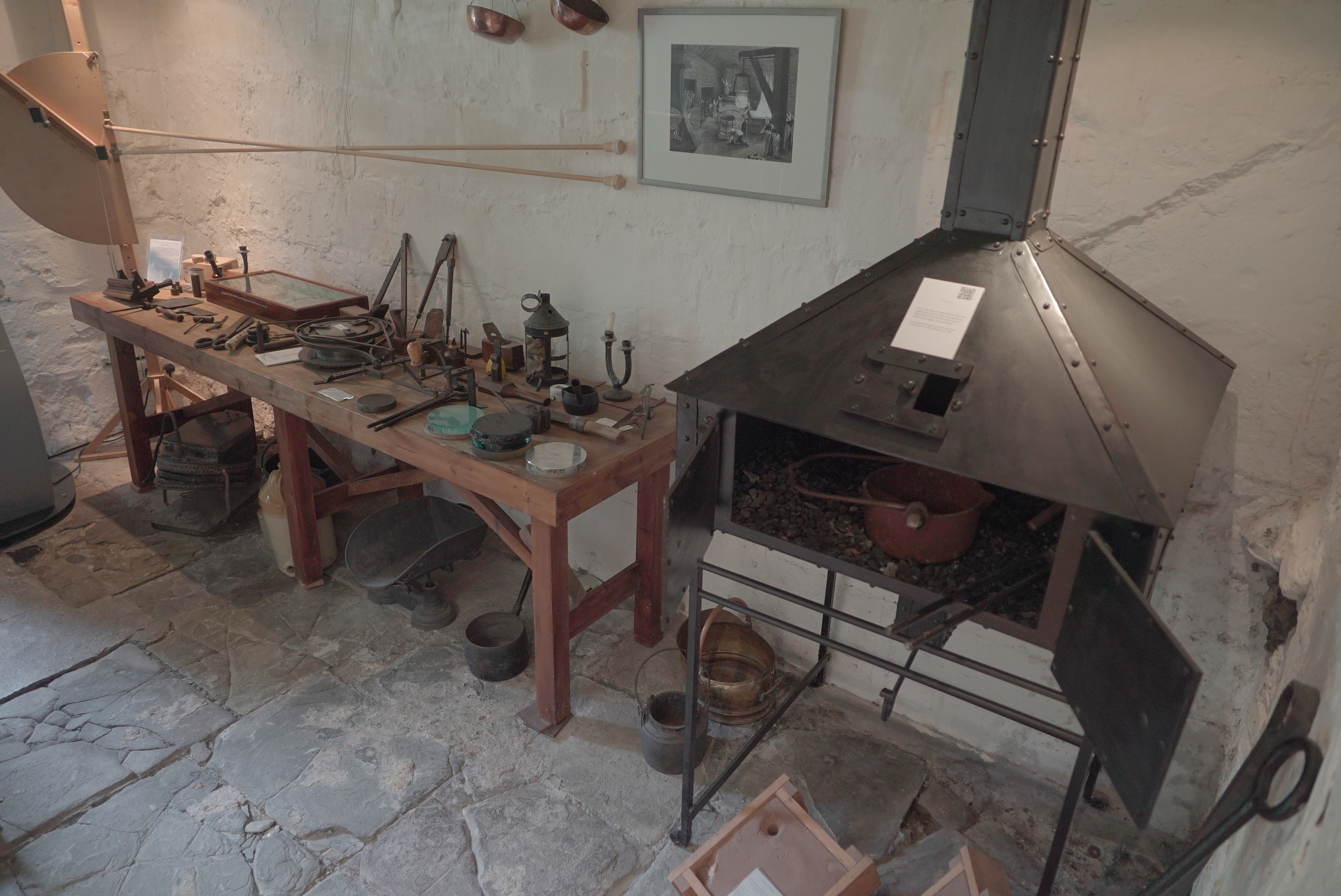 Herschel Museum of Astronomy, telescopic lens-making equipment